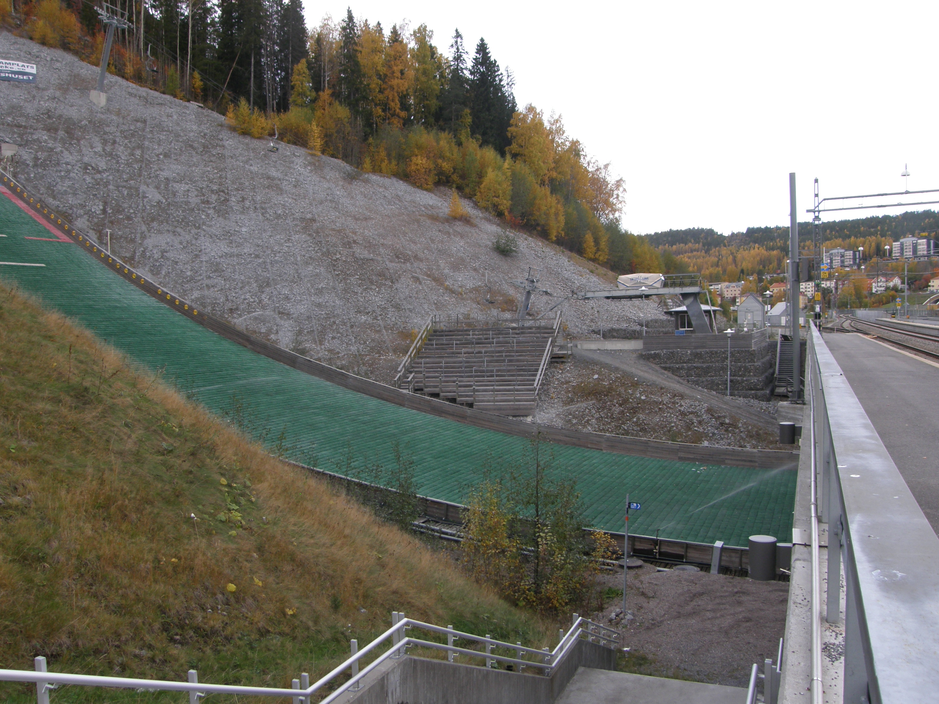 Paradiskullen H-100 ski jumping hill in Örnsköldsvik, Sweden